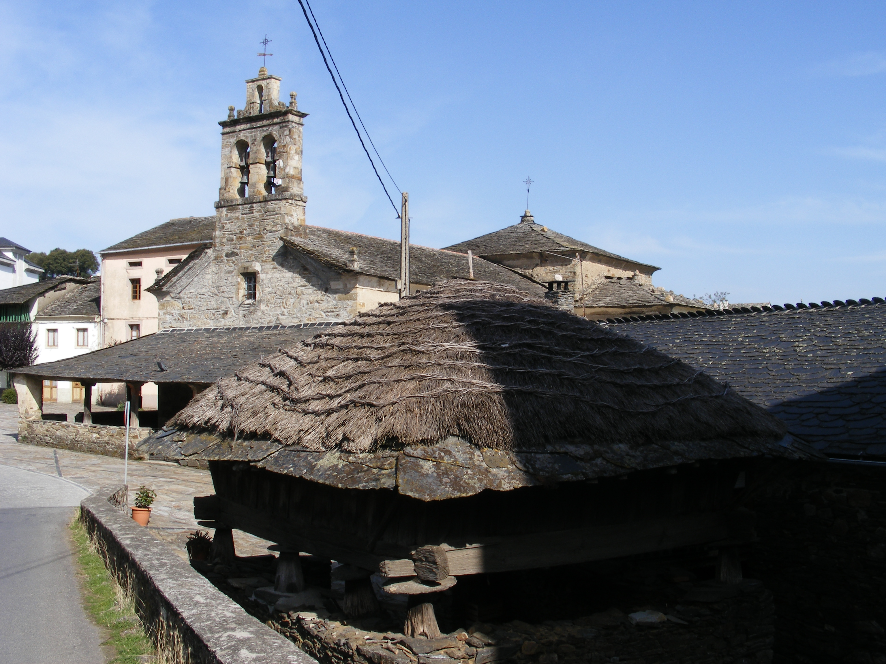 Town centre of San Martín de Oscos, Asturias. In the foreground is an example of the local representation of the traditional Asturian 'horreo' barn, utilising slate and thatch for the roof in place of terracotta tiles. In the background is the 19th century parish church.